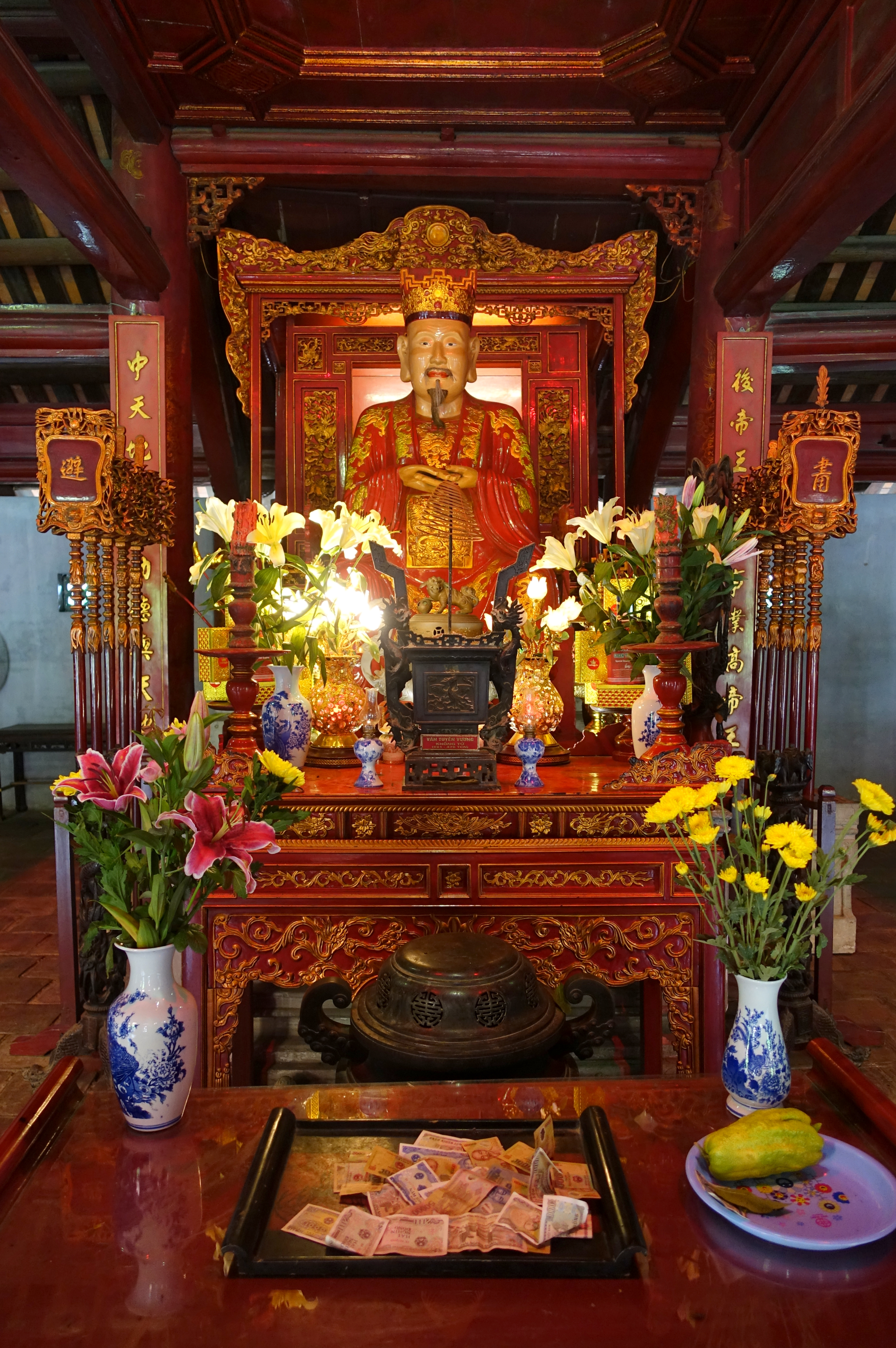 Altar to Confucius - Temple of Literature, Hanoi, Vietnam.